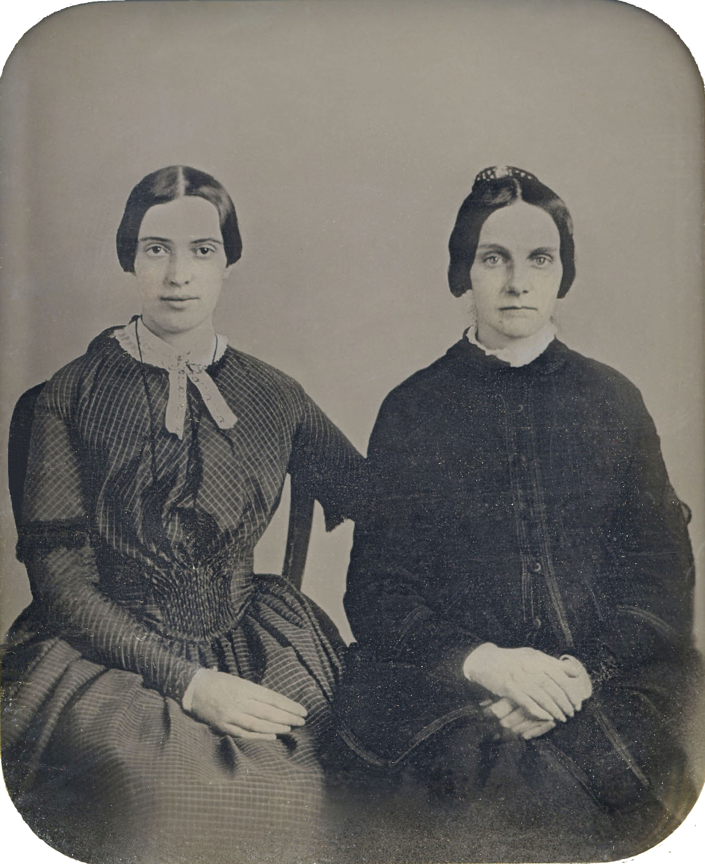 Unauthenticated portrait of Emily Dickinson and Kate Scott Turner(?) c.1859. This is an edited version of Dickinson and Turner 1859.jpg, with some dust and scratches removed, as well as some pieces of the frame cropped off of the edges.